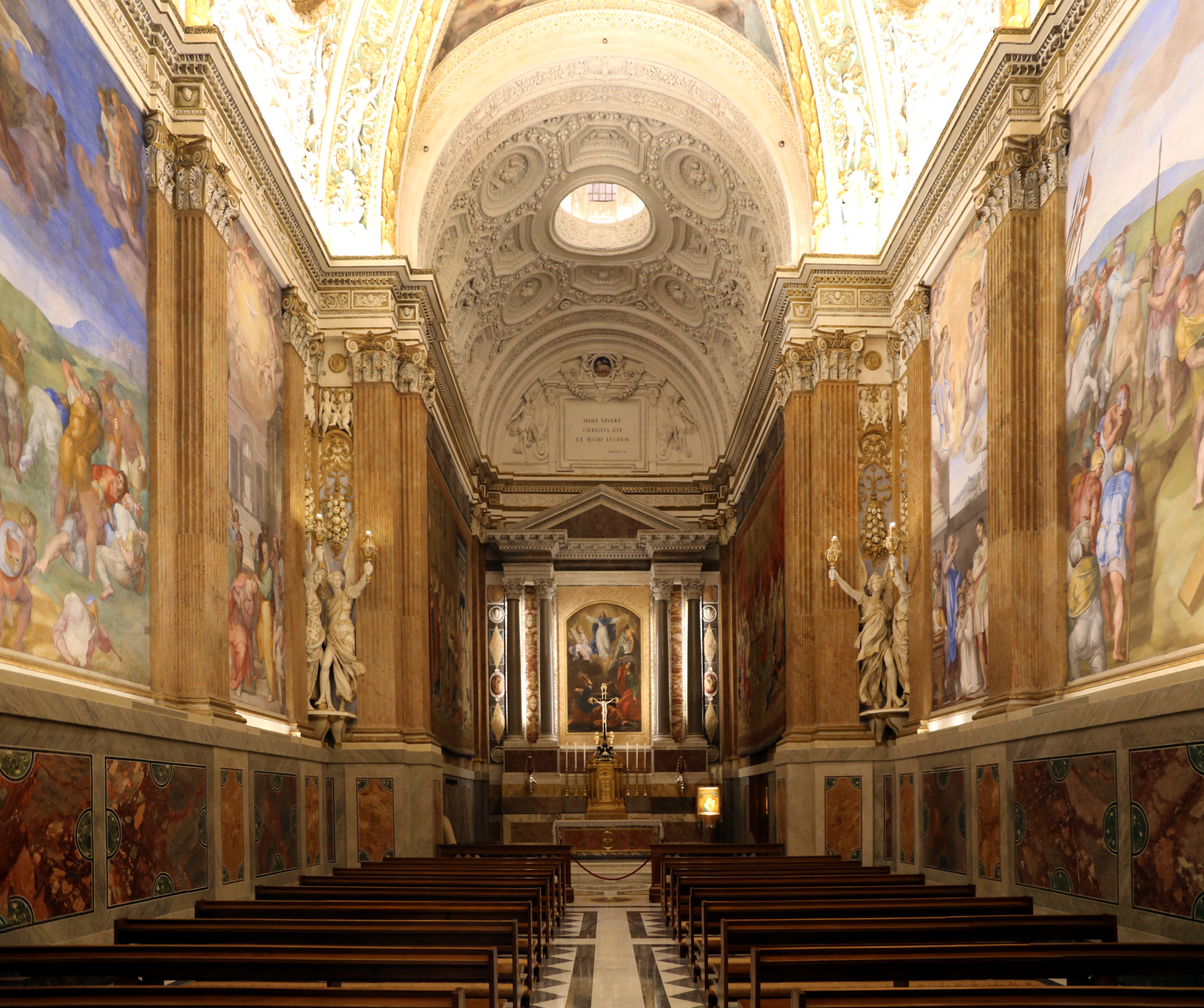 Cappella Paolina, Palazzi Pontifici, Vatican